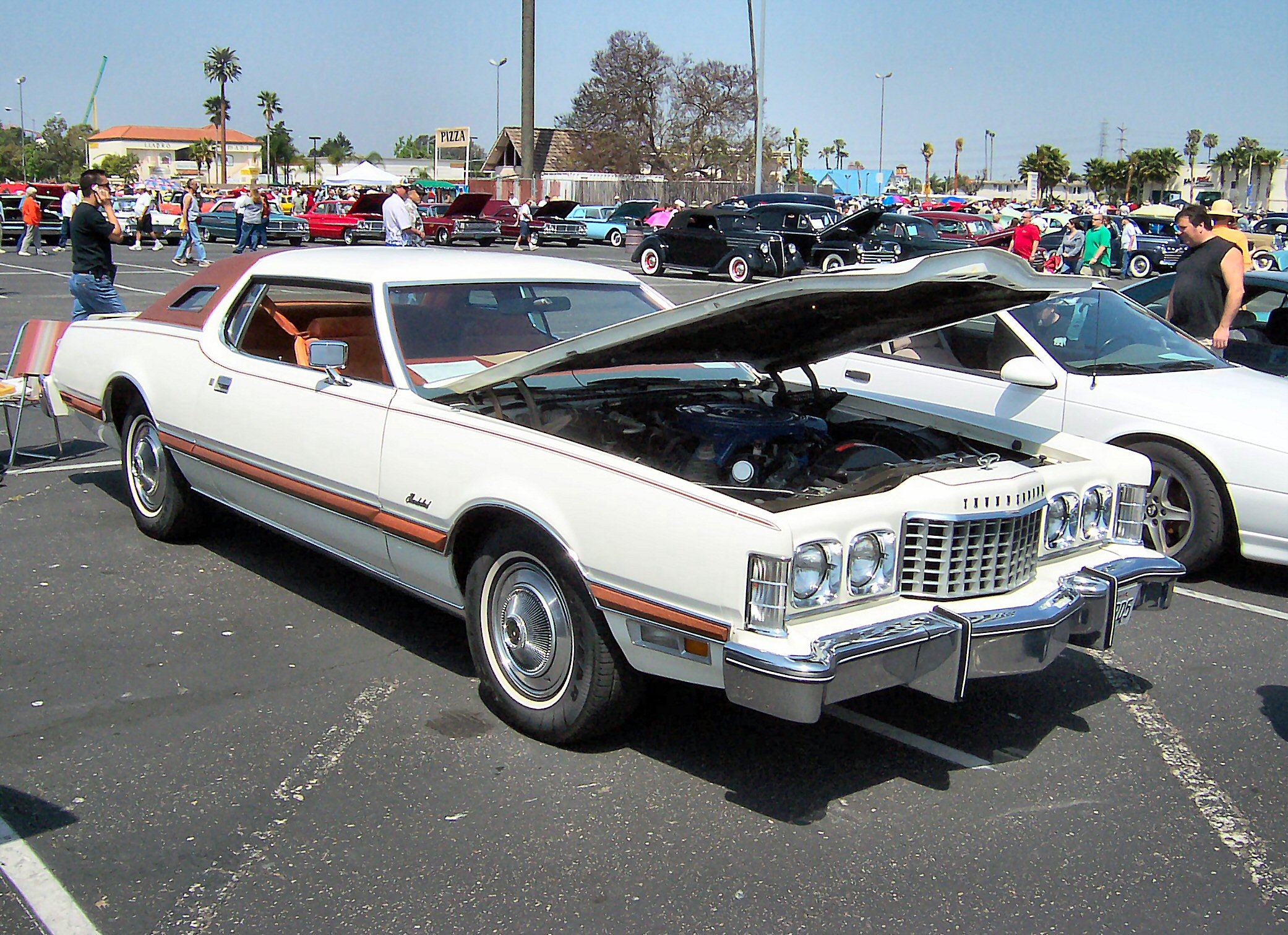 1975 Ford Thunderbird in Polar White with the Copper Luxury Group (copper-toned vinyl top, side molding, pinstriping, and interior). Photo taken at the Fabulous Fords Forever show at Knotts Berry Farm, Buena Park, California, USA on April 17, 2005